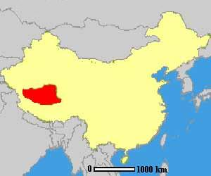 Map of Changthang (nature park), Tibet